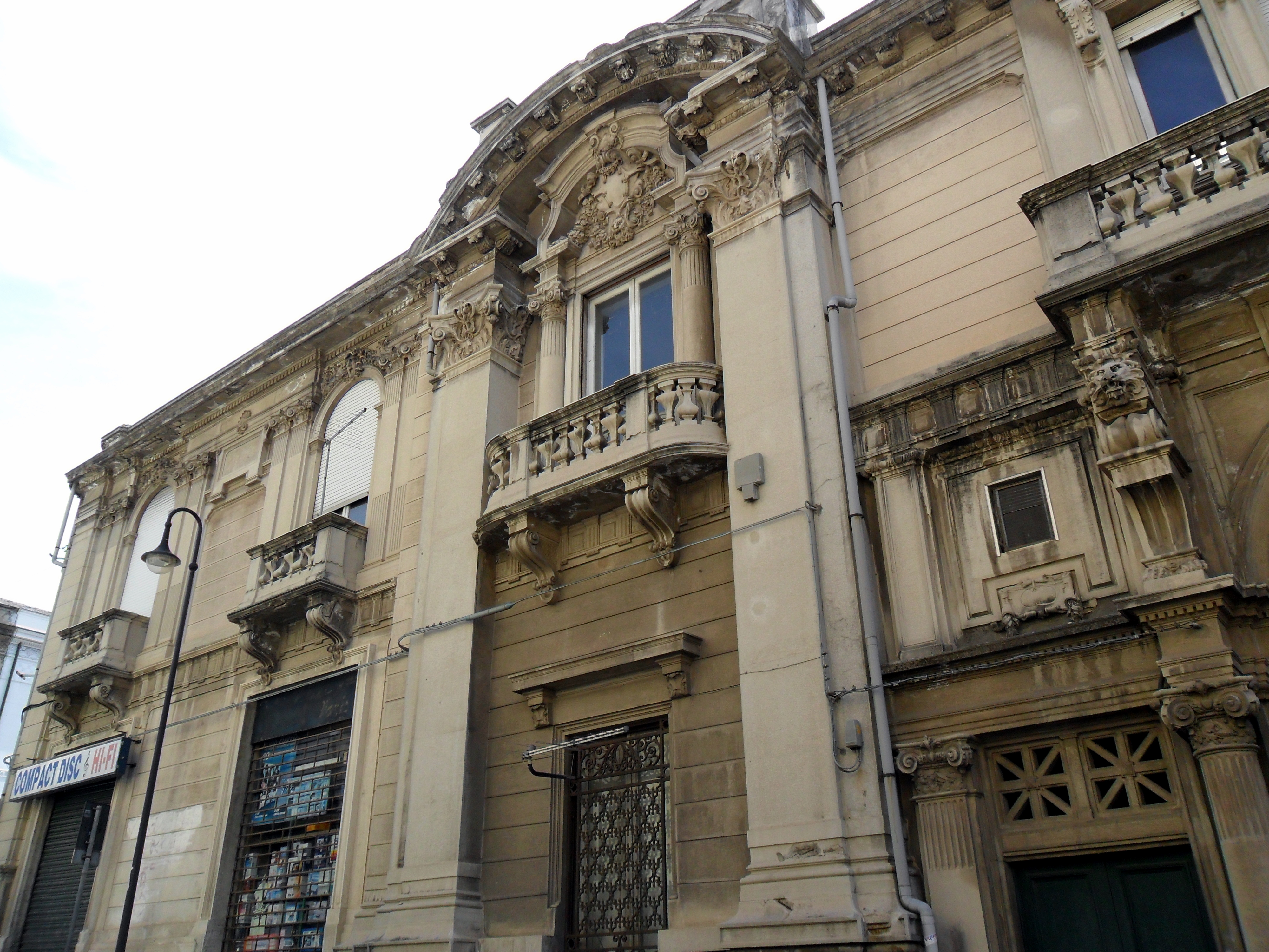 Reggio Calabria - Trapani Lombardo Palace